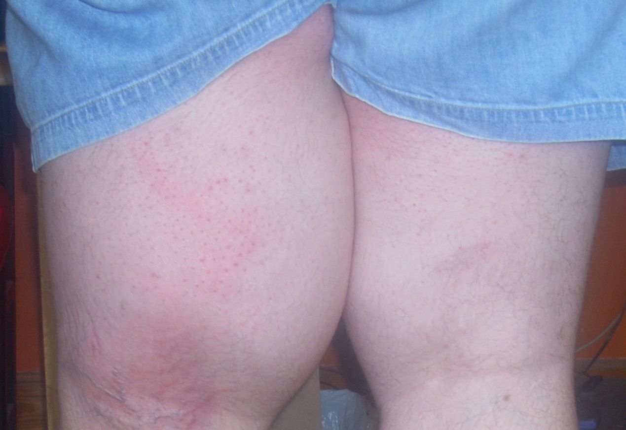 Left thigh showing edema caused by liposarcoma